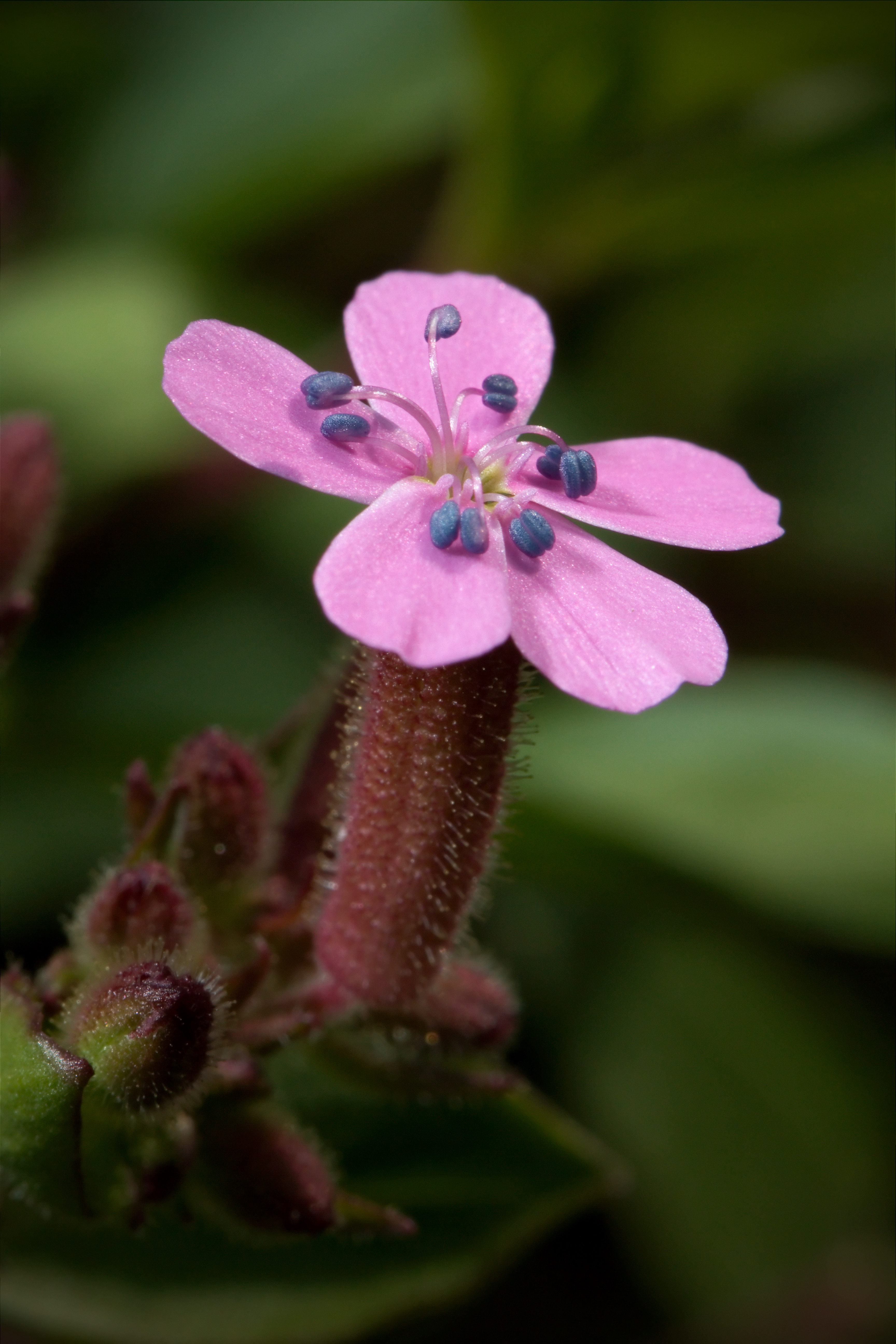 If you look closer at things than you are used to, you will discover new things.